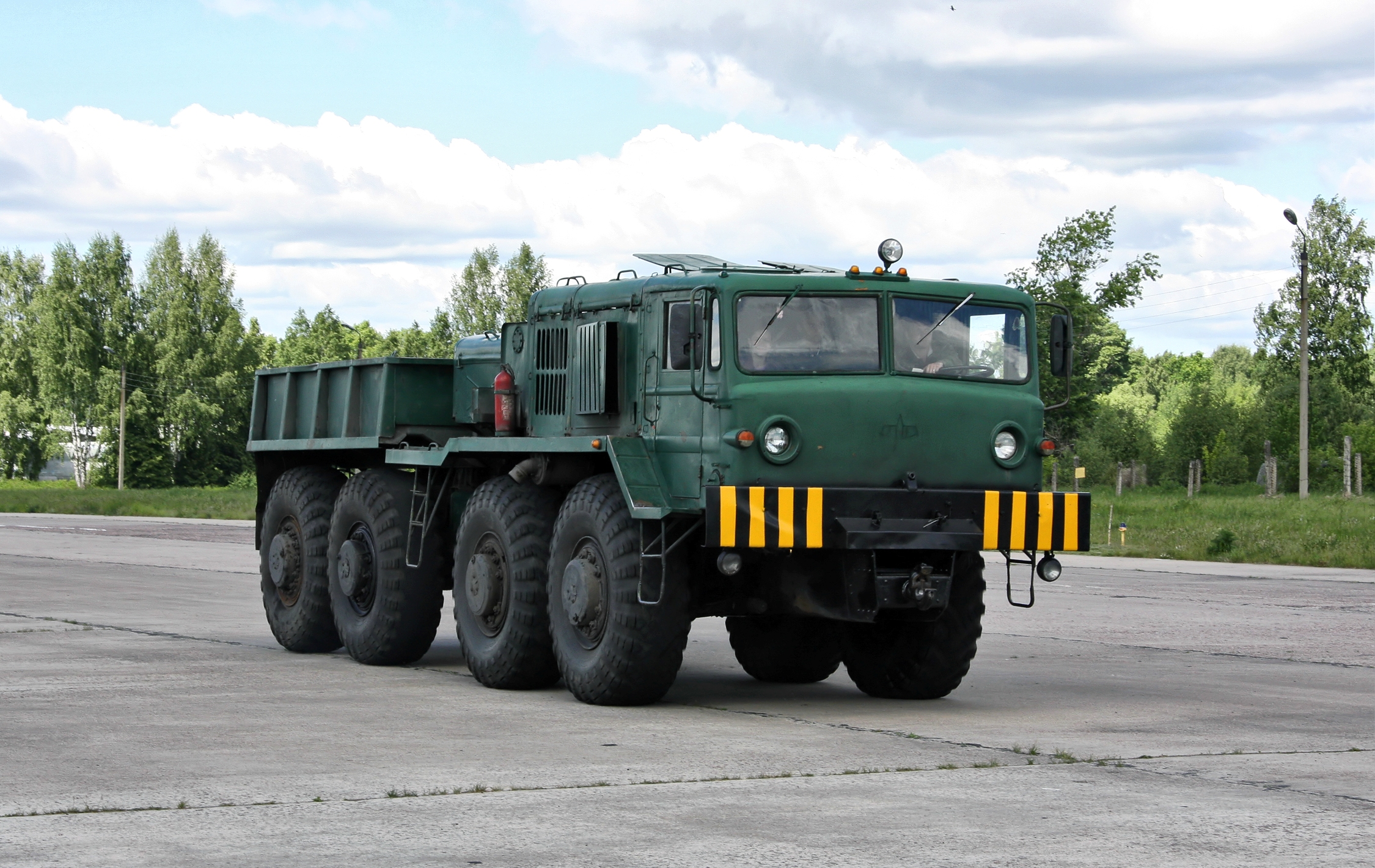 A MAZ-537 at the Migalovo Air Force base in Tver Oblast.